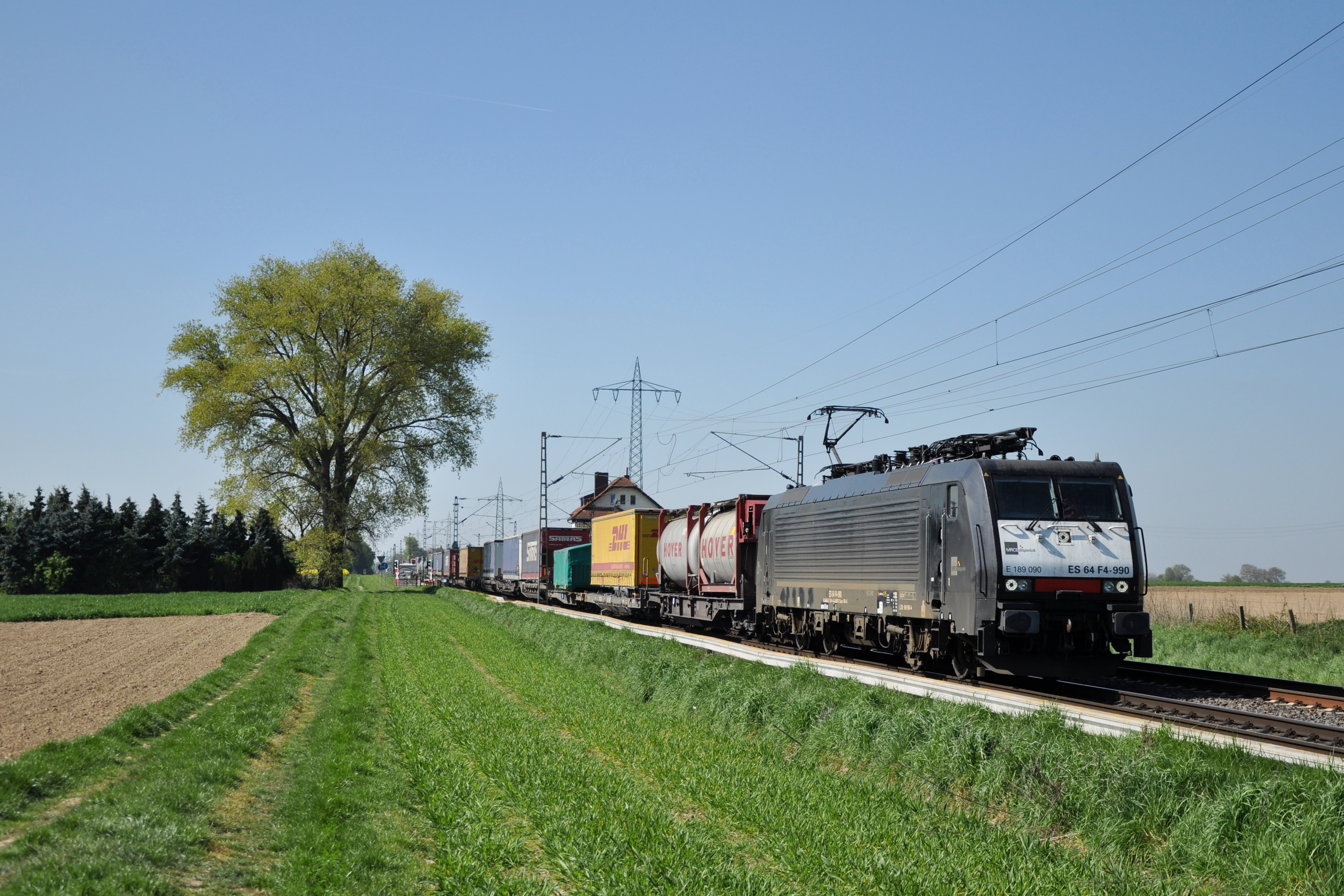 189 090 / MRCE Dispolok // Herrath / April 2014